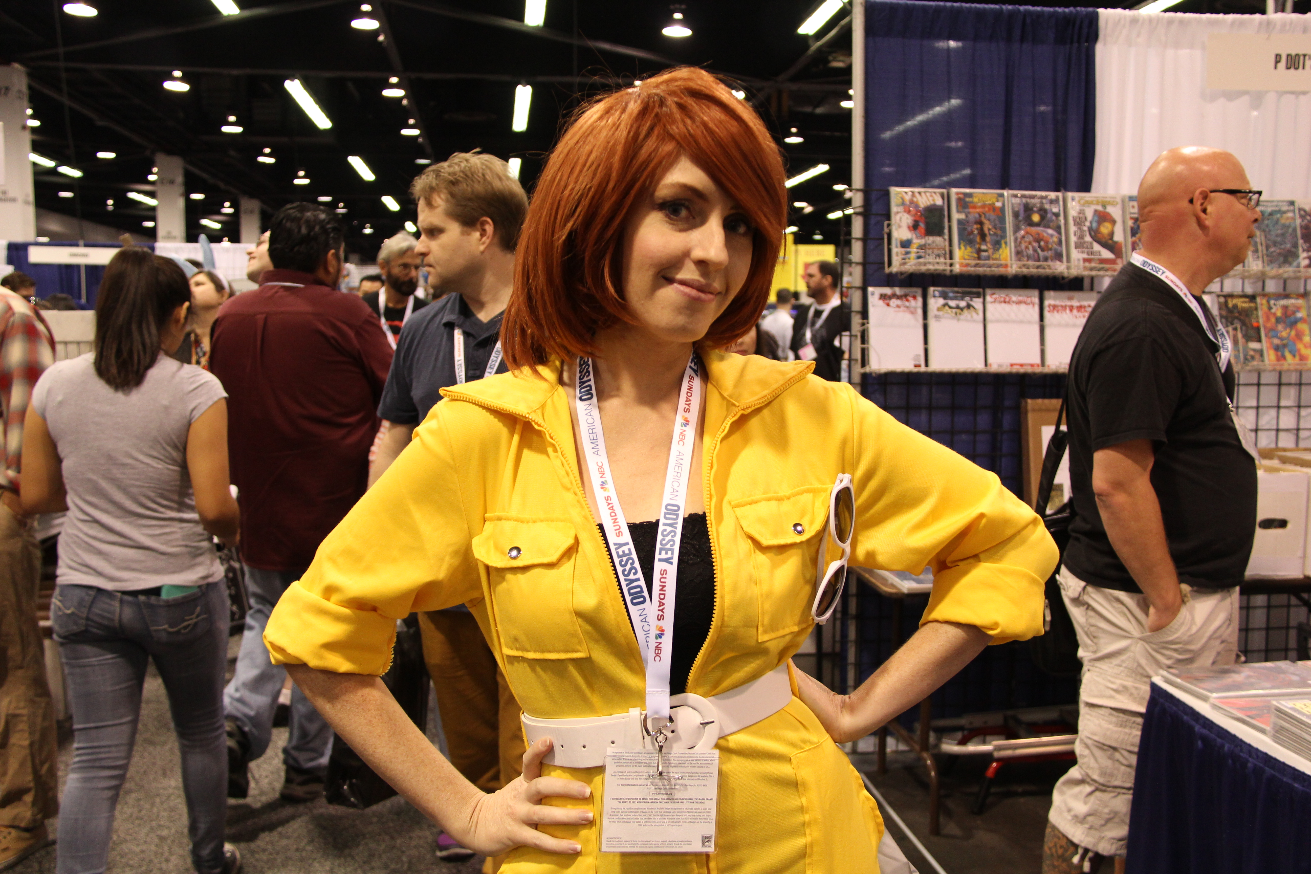 A cosplay of April O'Neil from TMNT